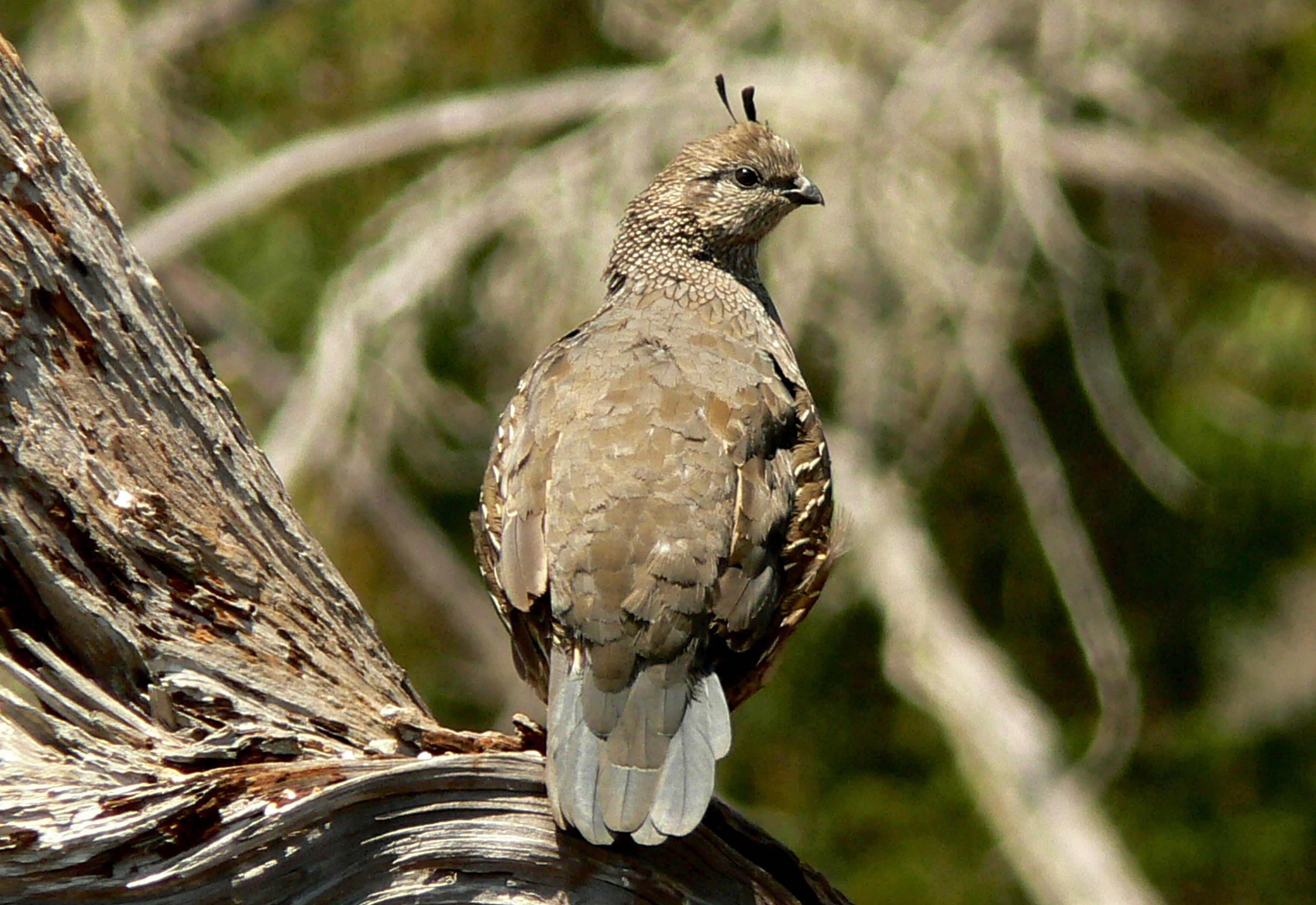 Callipepla californica This female California Quail seemed to be acting as the Look-out for the flock that was nearby.